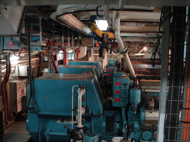 Three Wärtsilä Diesel generators onboard the dredge Samuel De Champlain.